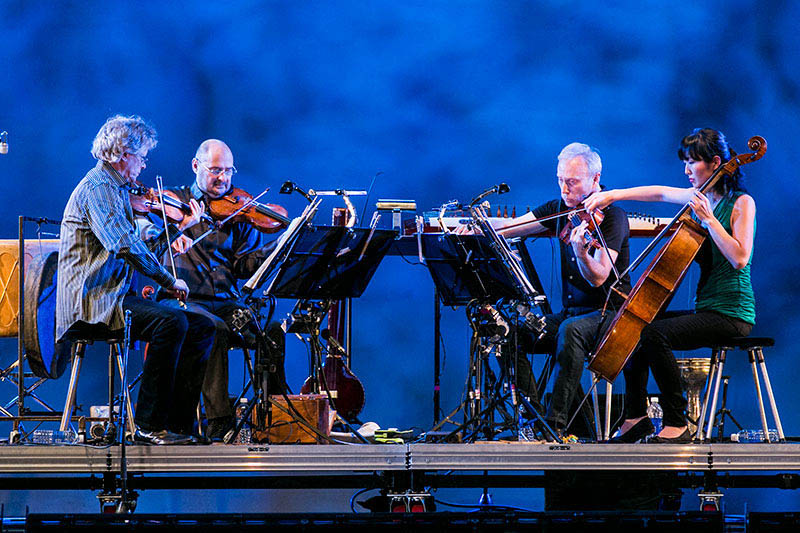 Kronos Quartet photo by Sachyn Mital. Performance at Lincoln Center in 2013.